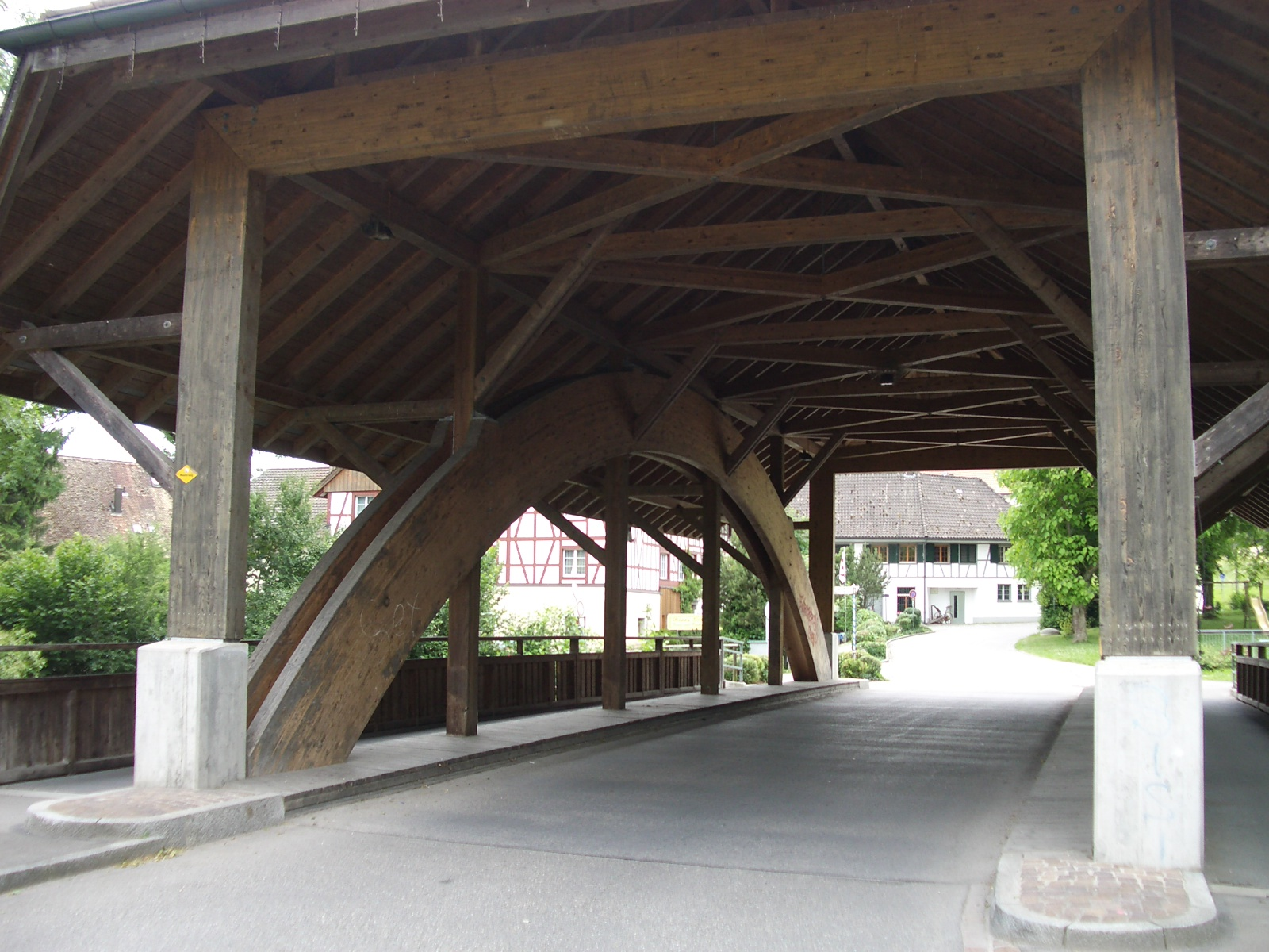 Oberglatt ZH, Switzerland